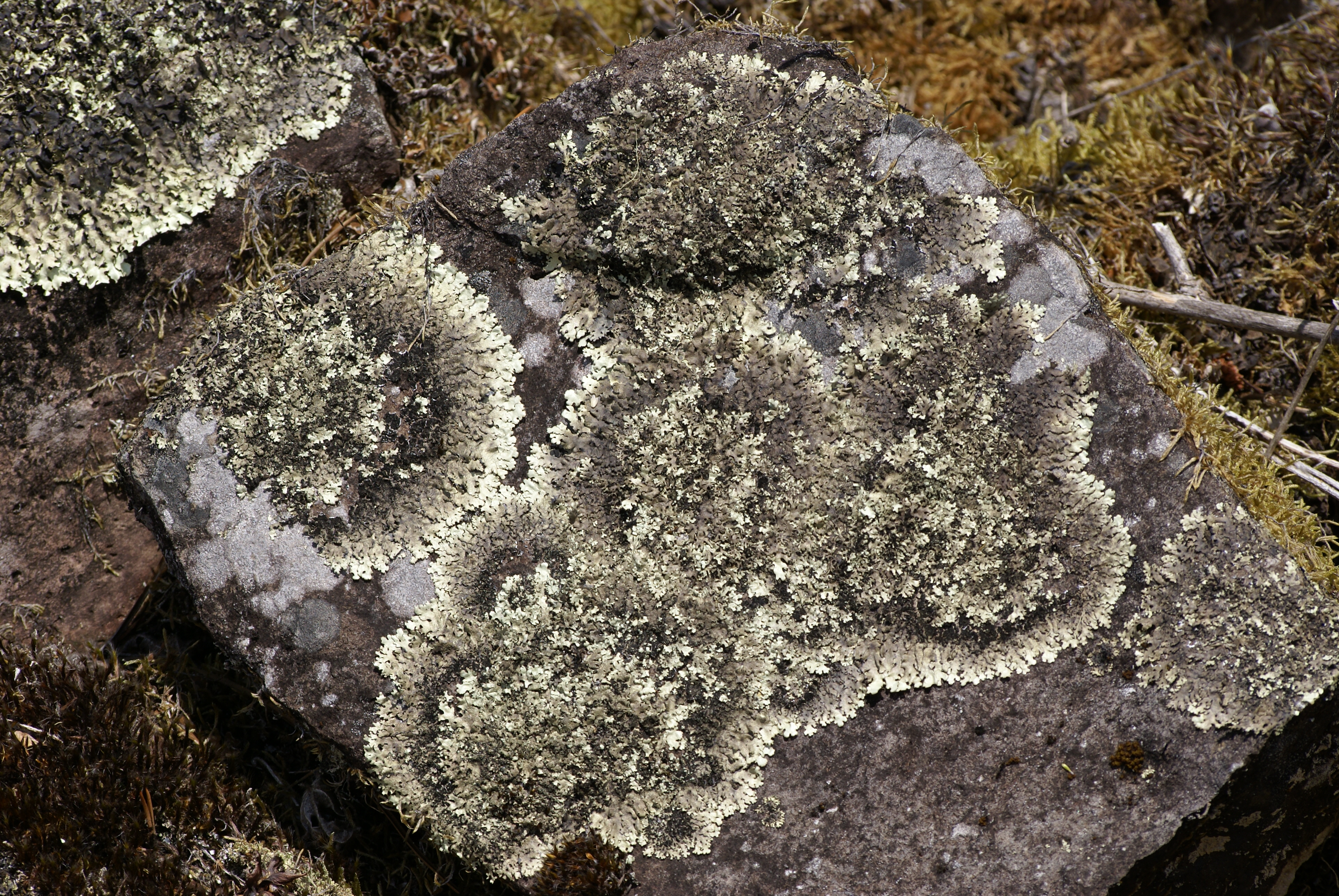 Xanthoparmelia sp. lichen, on rocks in a sunny place 'îlet des Trois Salazes, Cilaos, Reunion island)